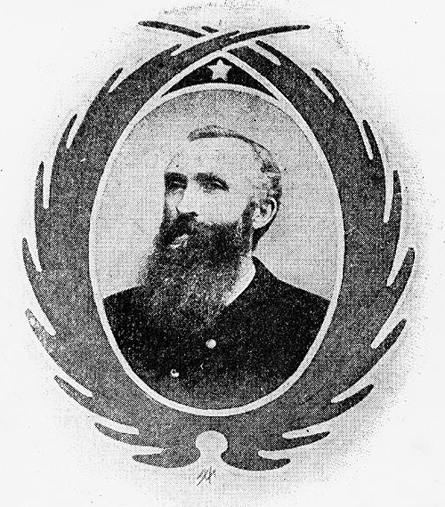 Hugh Molloy, Ordinary Seaman, United States Navy. Post-Civil War photograph, published in Deeds of Valor, Volume II, page 63, by the Perrien-Keydel Company, Detroit, 1907. Ordinary Seaman Molloy was awarded the Medal of Honor for heroism in serving a gun from an exposed position on the forecastle of USS Fort Hindman during an engagement with an enemy battery near Harrisonburg, Louisiana, on 2 March 1864. Note: The birth date given on this image differs from that published in the book Medal of Honor -- The Navy, which gives Molloy's date of birth as 1832.